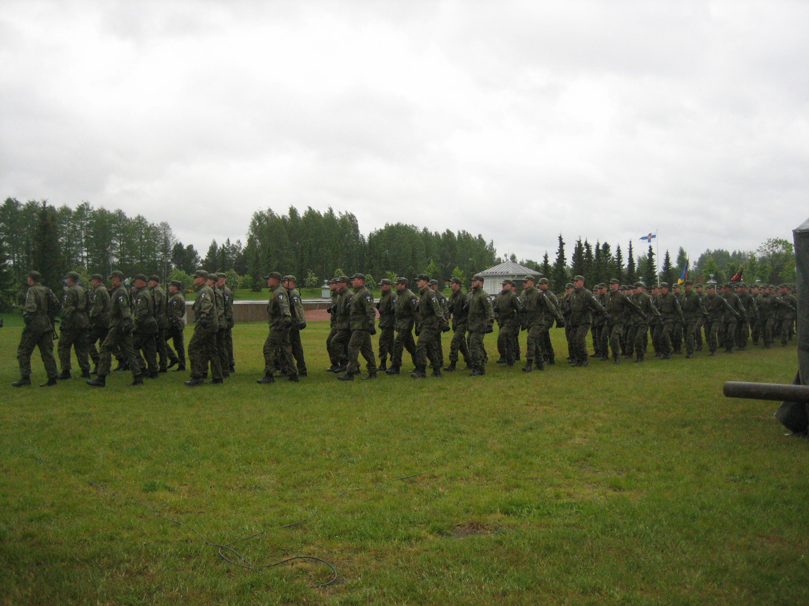 The local defence unit (maakuntakomppania) of Satakunta, participating in the national parade of the Finnish Defence Forces in Pori on the Defence Forces Flag Day 2009. The unit, which is part of the FDF, consists of voluntary reservists.